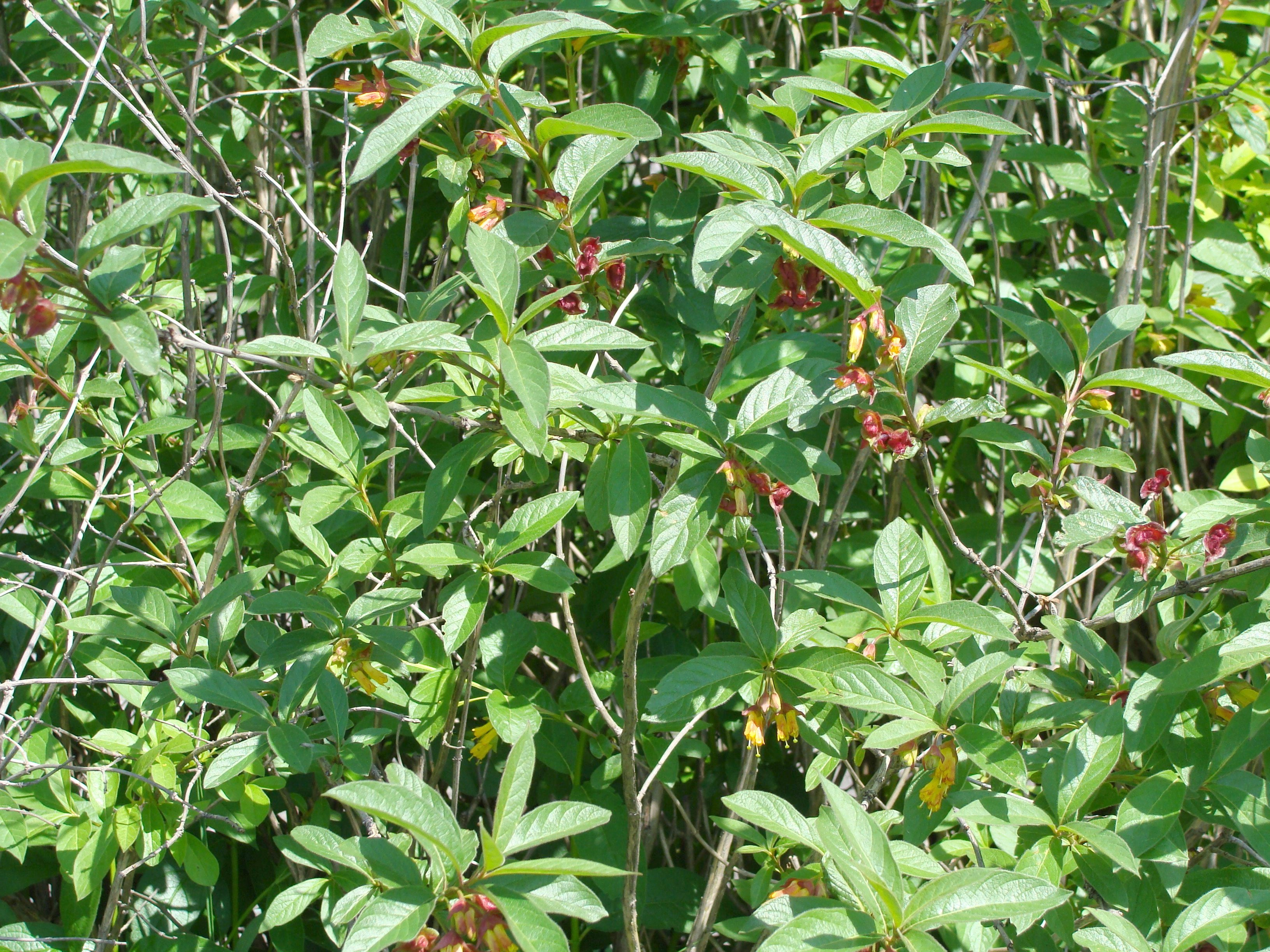 Lonicera ledebouri